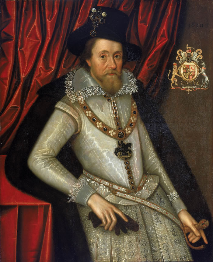 Portrait of James I of England. One of a number of similar paintings produced by John de Critz and his studio around 1605 and 1606, with small variations of costume, accessories, and background.